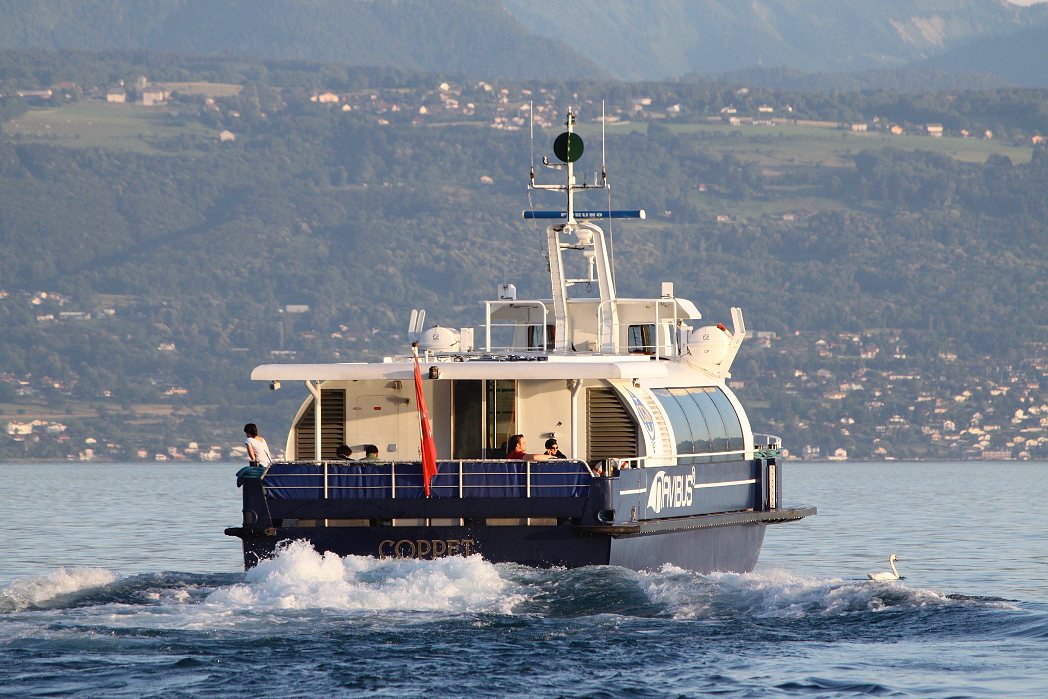 MS "Coppet" leaving Ouchy.